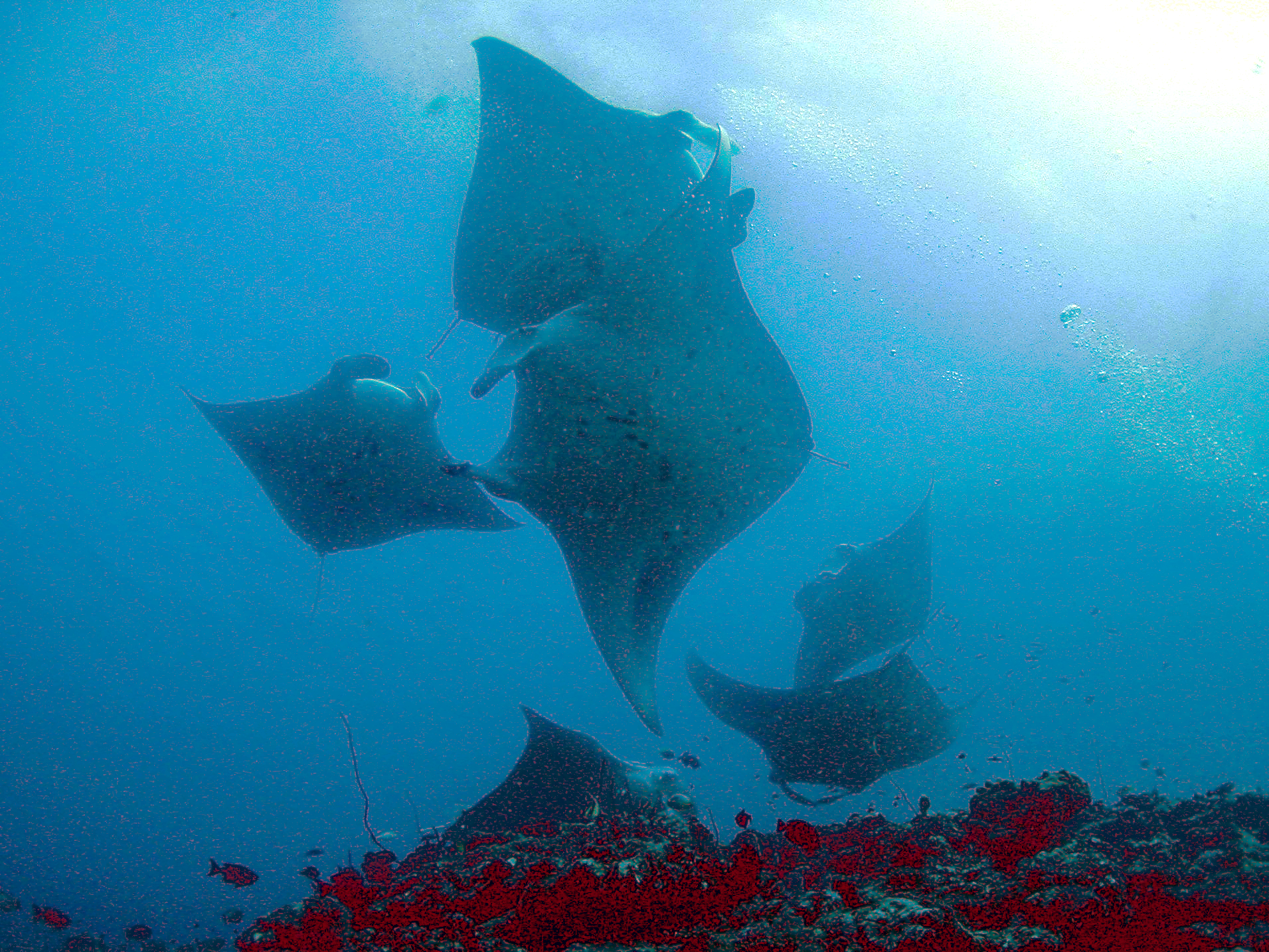 A group of manta rays (Manta alfredi, included among M. birostris before 2010) in the Maldives